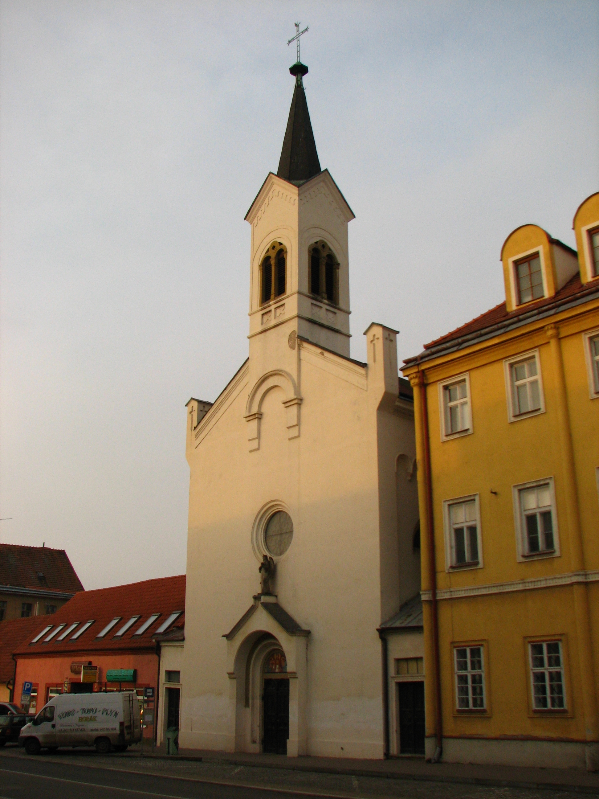 Saint Joseph Kalasanský's Chapel in Kyjov